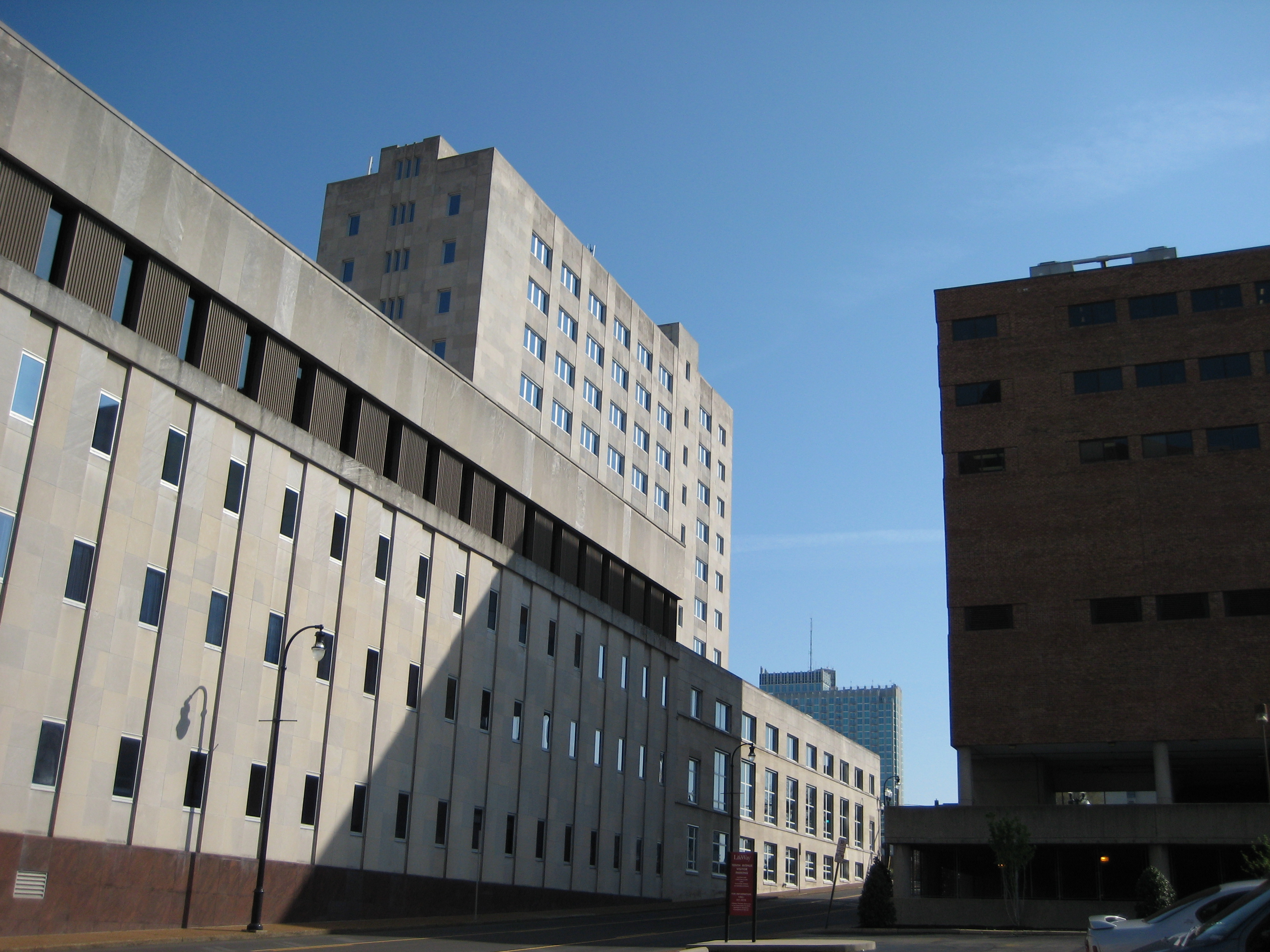 Lifeway Skyline